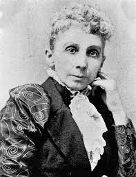 Dr Mary Sawtelle was an early woman physician in Oregon. pic from The Heroine of 49: A Story of the Pacific Coast, 1891